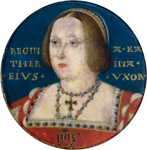 Portrait miniature